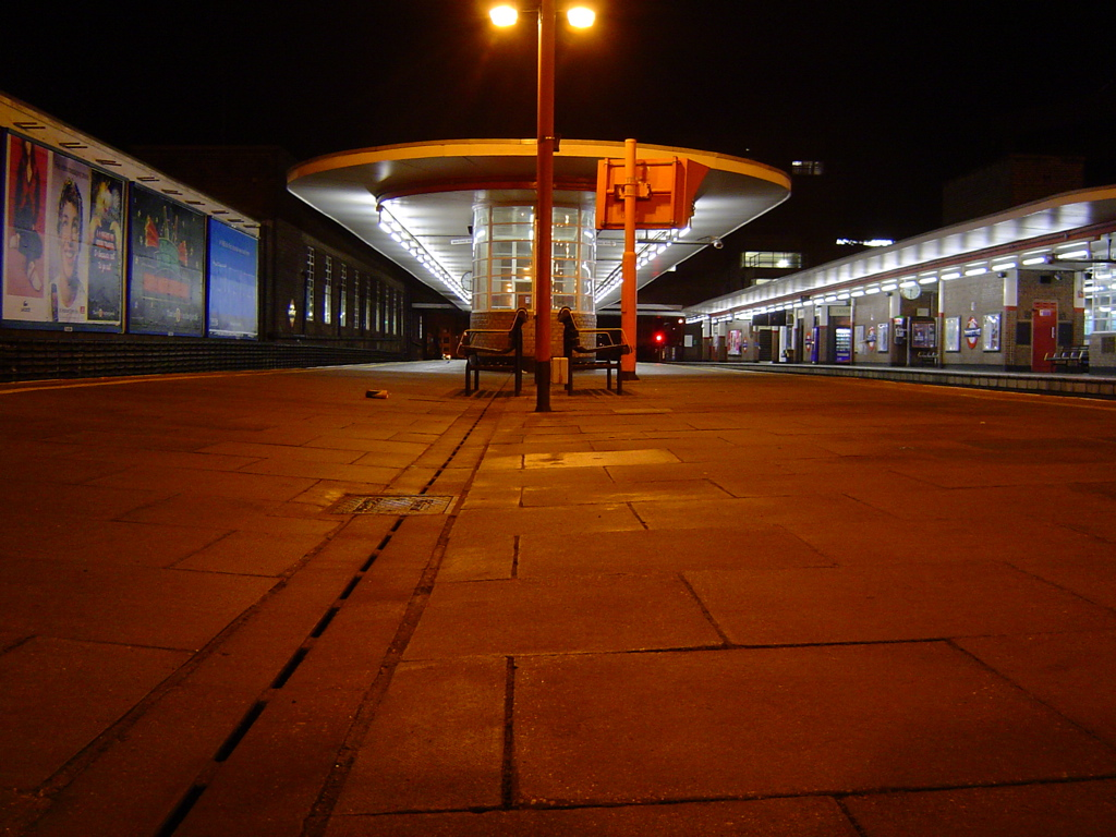 Harrow on the Hill Station at night